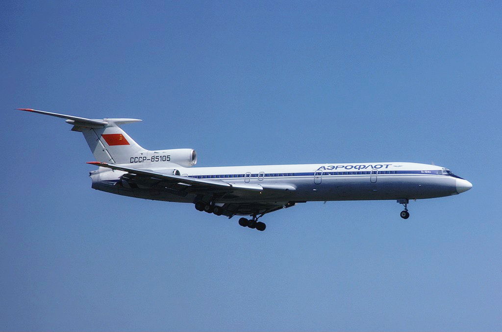 An Aeroflot Tupolev Tu-154A at Zürich Airport (ZRH / LSZH)